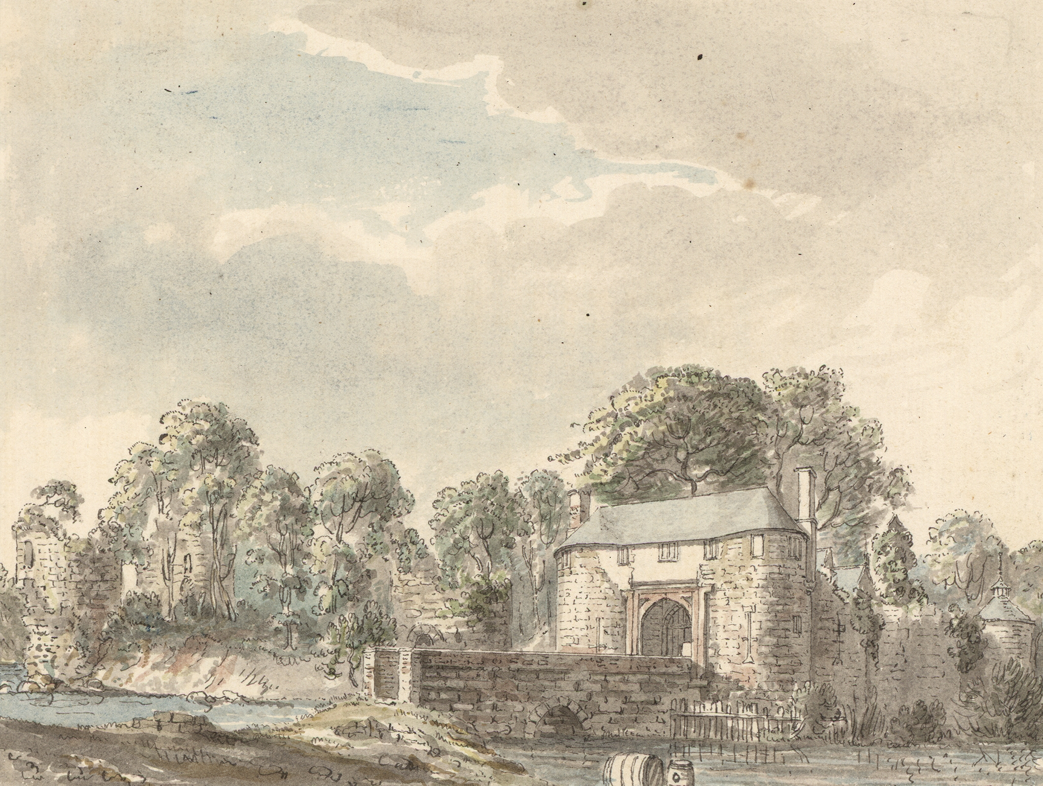 An image from a set of 8 extra-illustrated volumes of A tour in Wales by Thomas Pennant (1726-1798) that chronicle the three journeys he made through Wales between 1773 and 1776. These volumes are unique because they were compiled for Pennant's own library at Downing. This edition was produced in 1781. The volumes include a number of original drawings by Moses Griffiths, Ingleby and other well known artists of the period. Thomas Pennant (1726-1798)